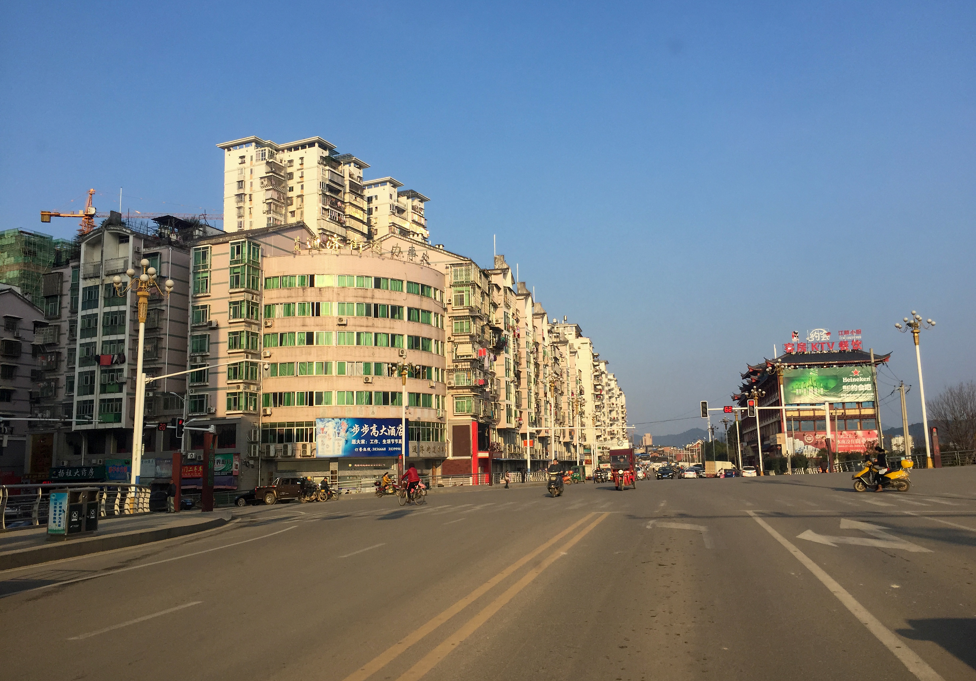 On the riverside avenue.